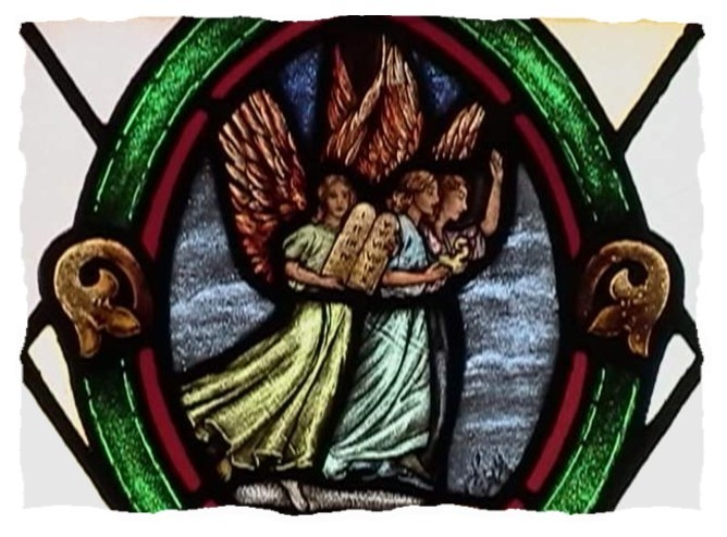 My photo taken in 2005 of Historic Escondido California SDA Church stained glass window, added aged border.